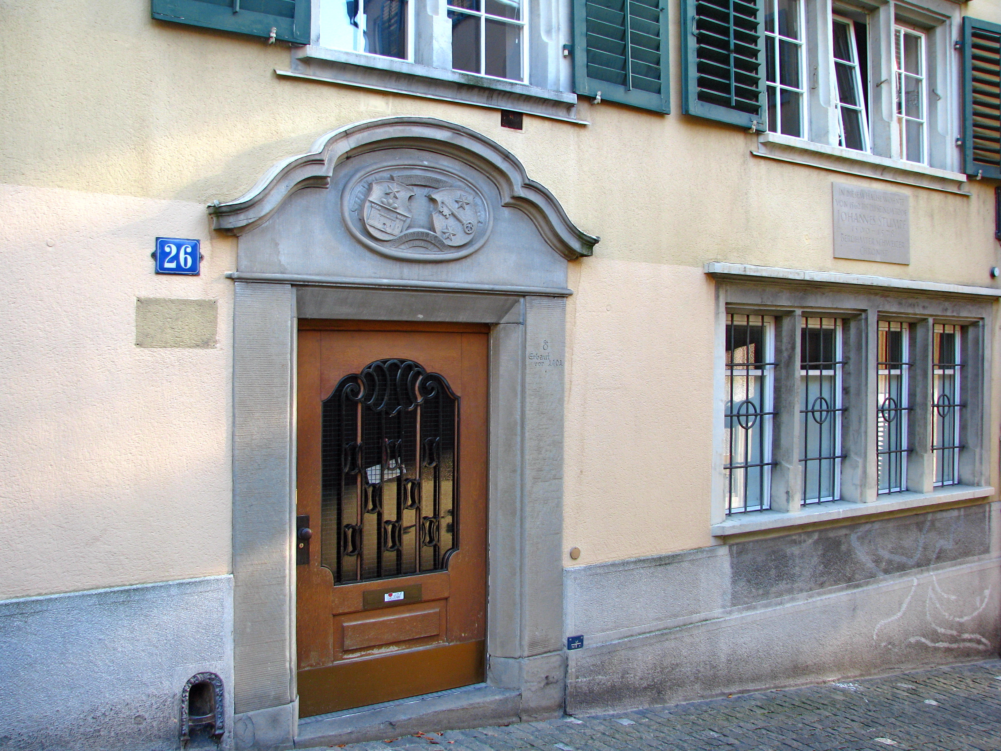 Zürich, Trittligasse : former home of Johannes Stumpf (* 1500; † ~1574).